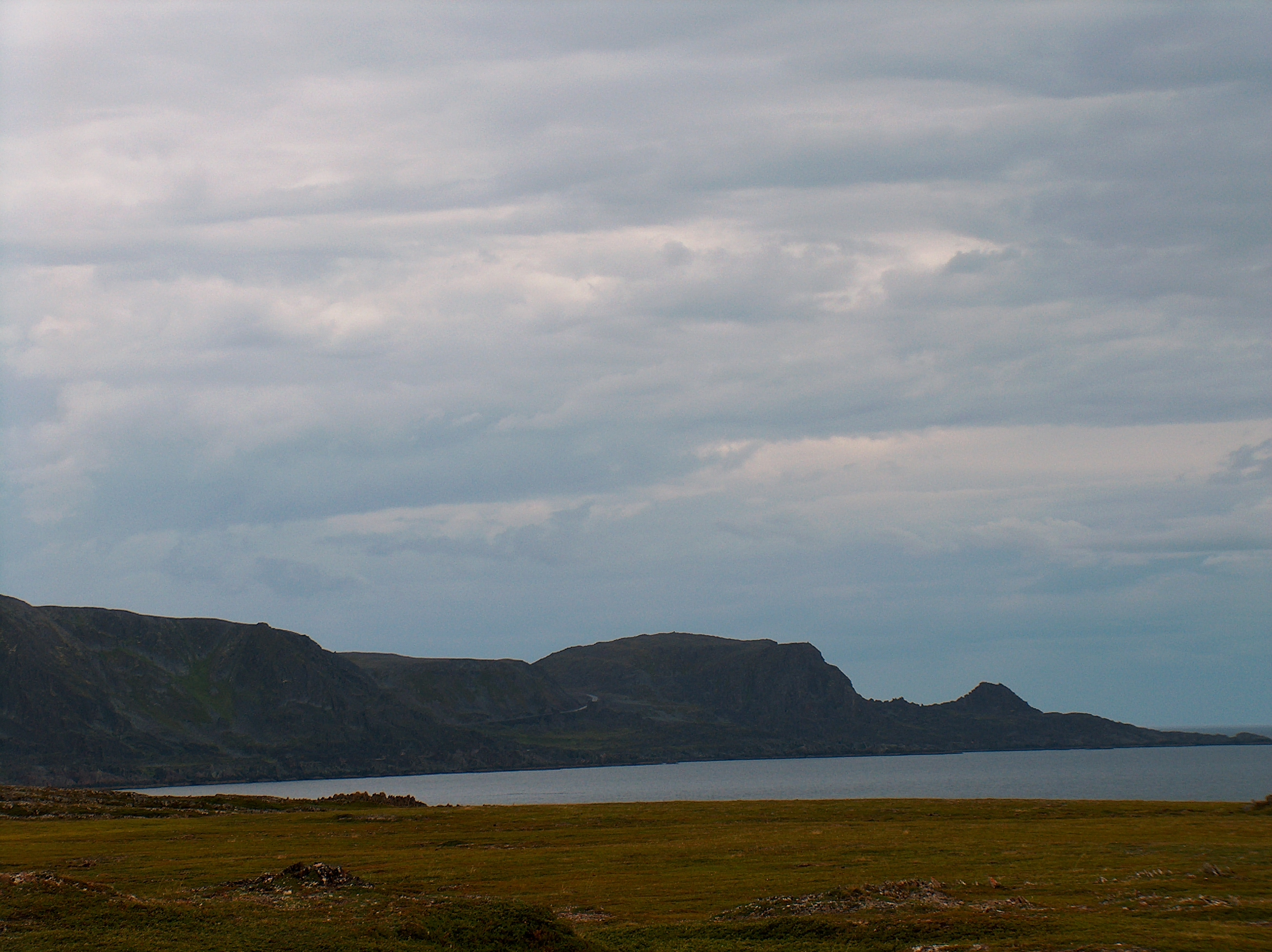 Landscape at Varanger.